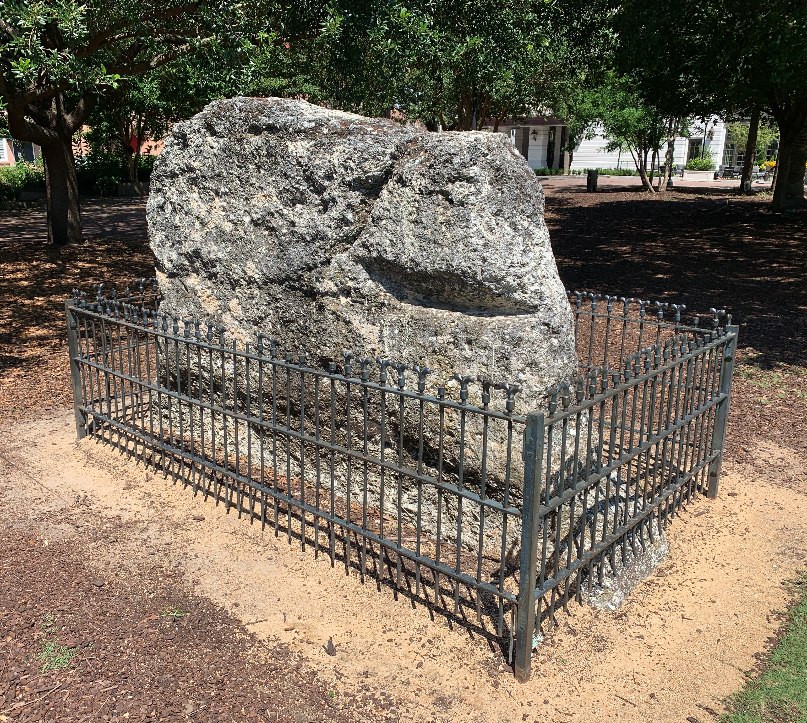 Marion Square, Charleston, South Carolina